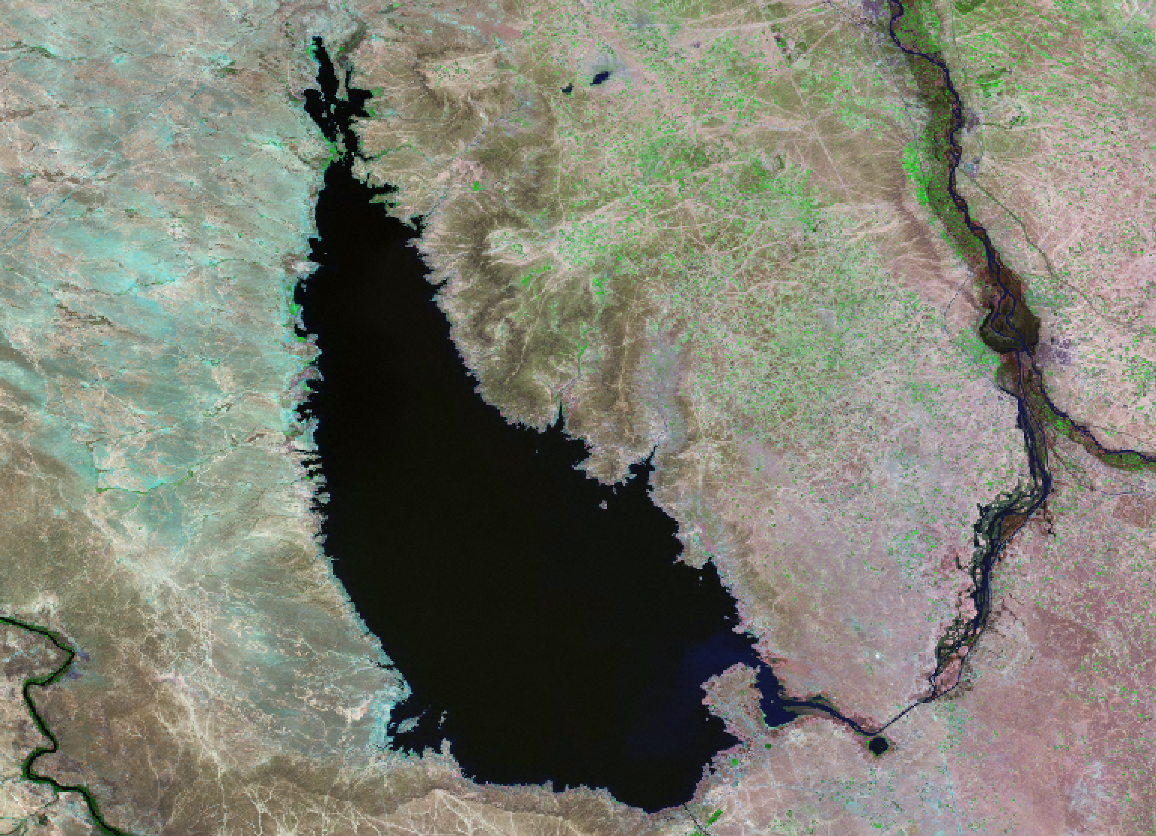 Base map image of Lake Tharthar, Iraq, taken in 1990 by Landsat 5.